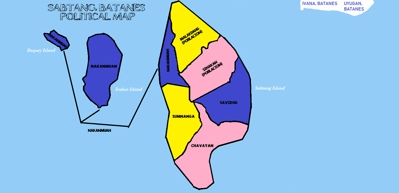 This map shows the Barangays in Sabtang, Batanes and the nearest municipalities in the area.